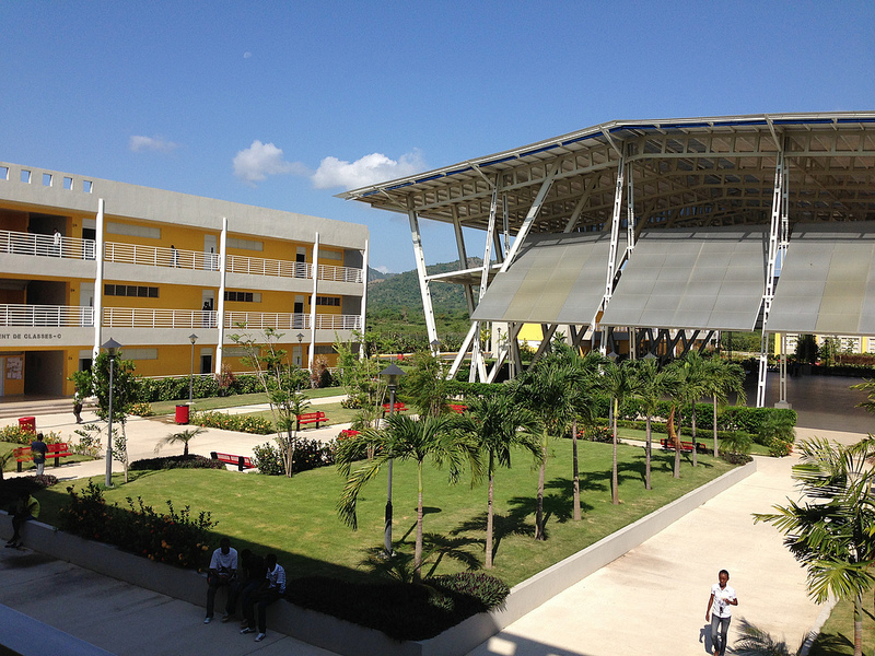 The Universite Roi Henri Christophe in Limonade